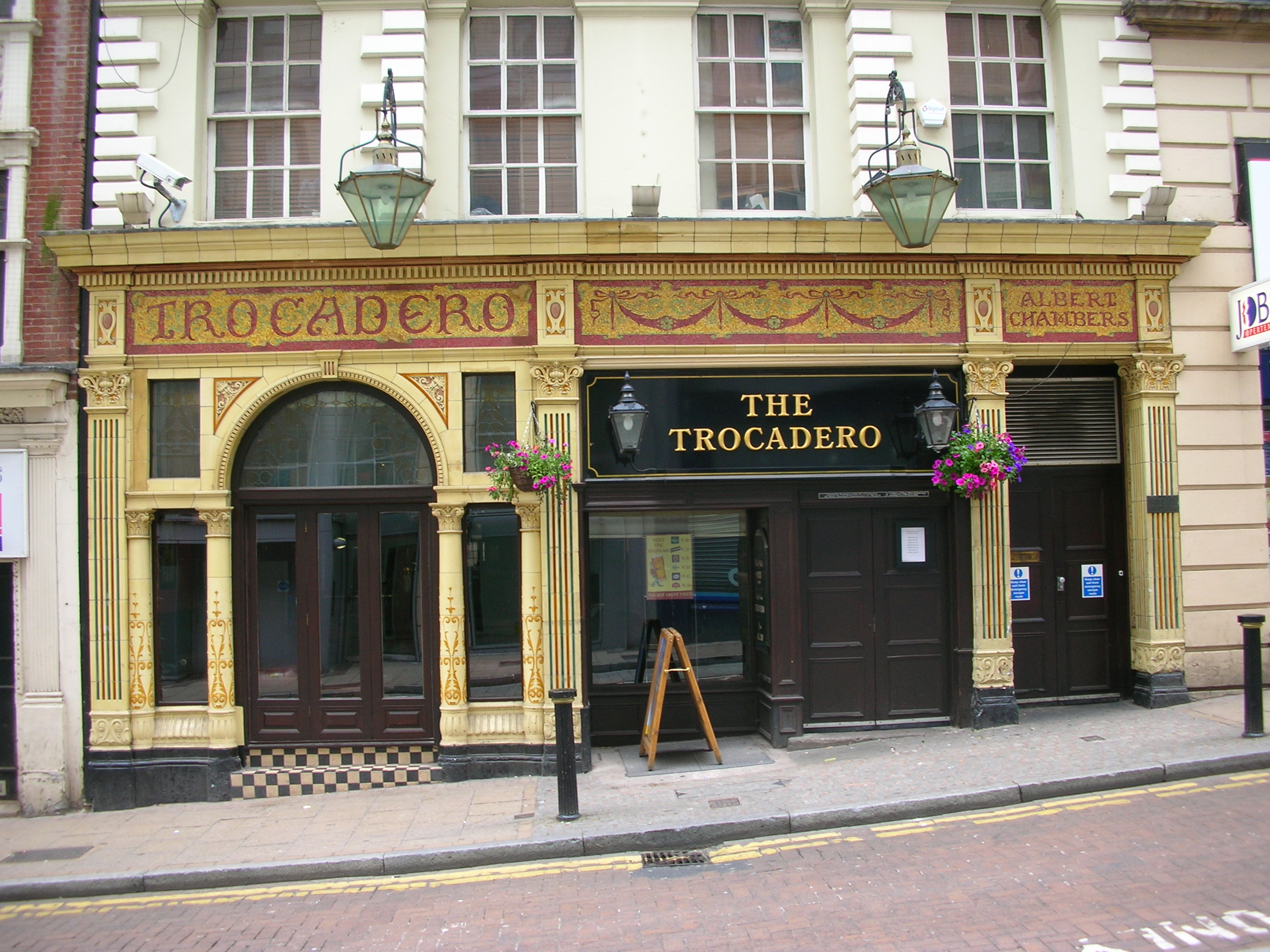 The Trocadero pub, Temple Street, Birmingham, England. A colourful example of glazed tile and terracotta. Photographed by me.